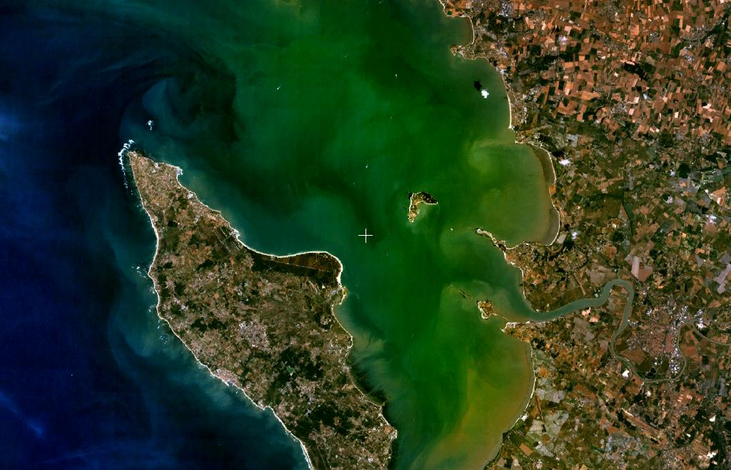 Location of Fort Boyard. Satellite view.